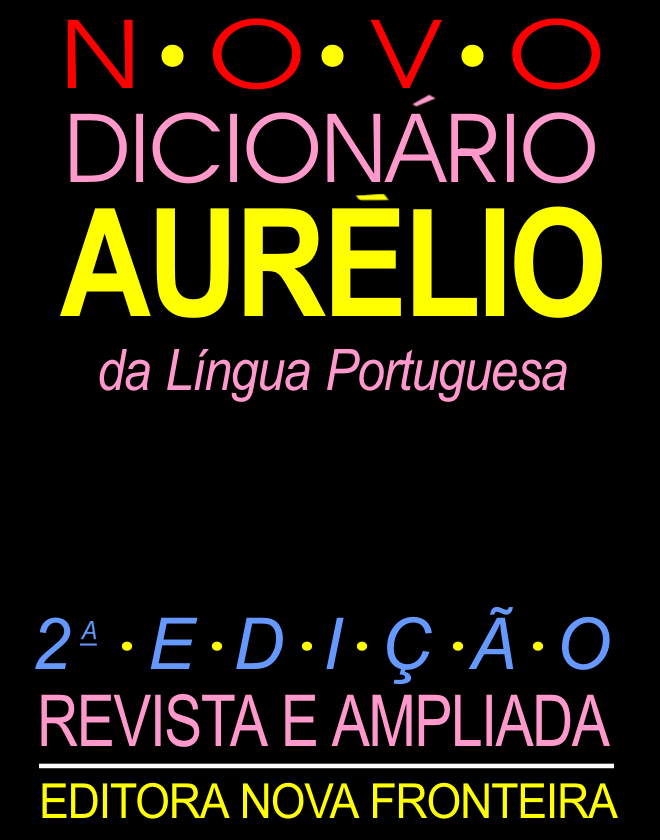 Brazilian dictionary "Aurélio".